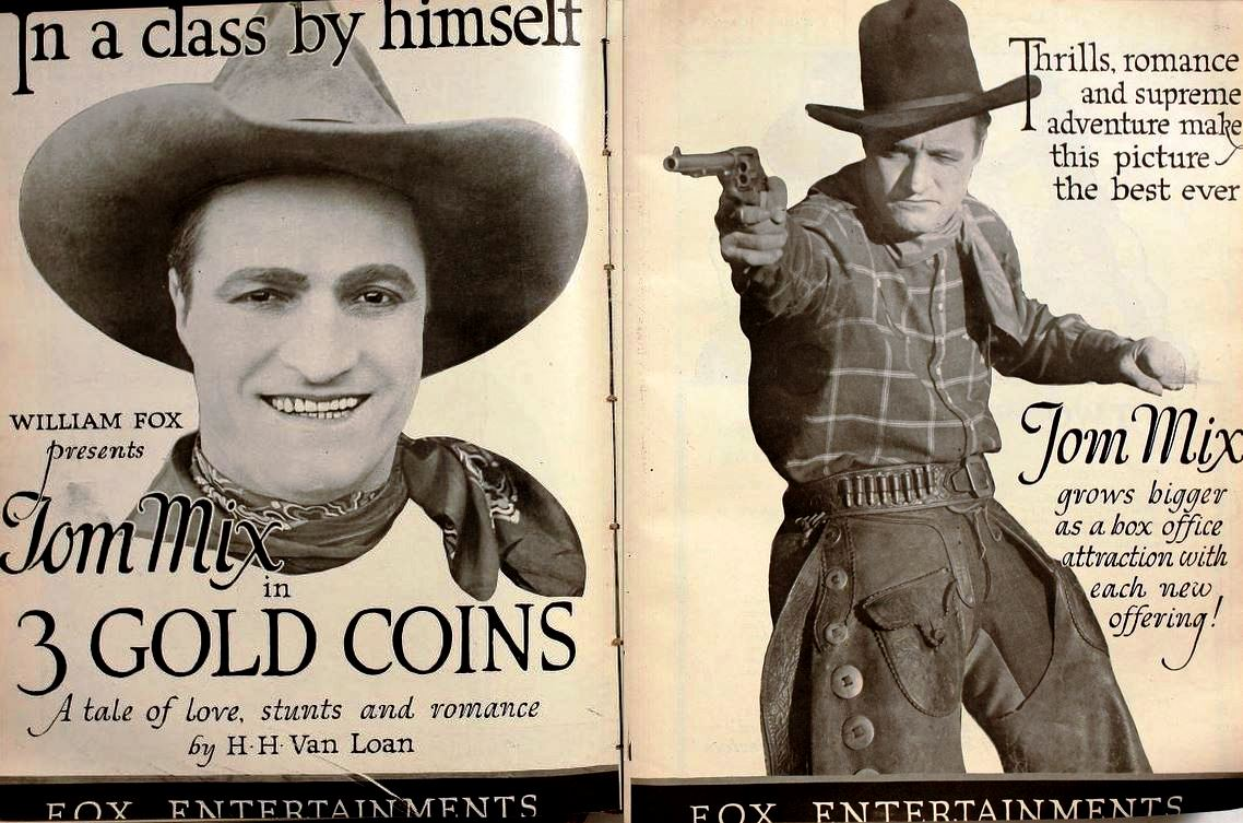 Advertisement for the American western film 3 Gold Coins (1920) aka Three Gold Coins with Tom Mix, on pages 4588 and 4589 of the June 5, 1920 Motion Picture News.